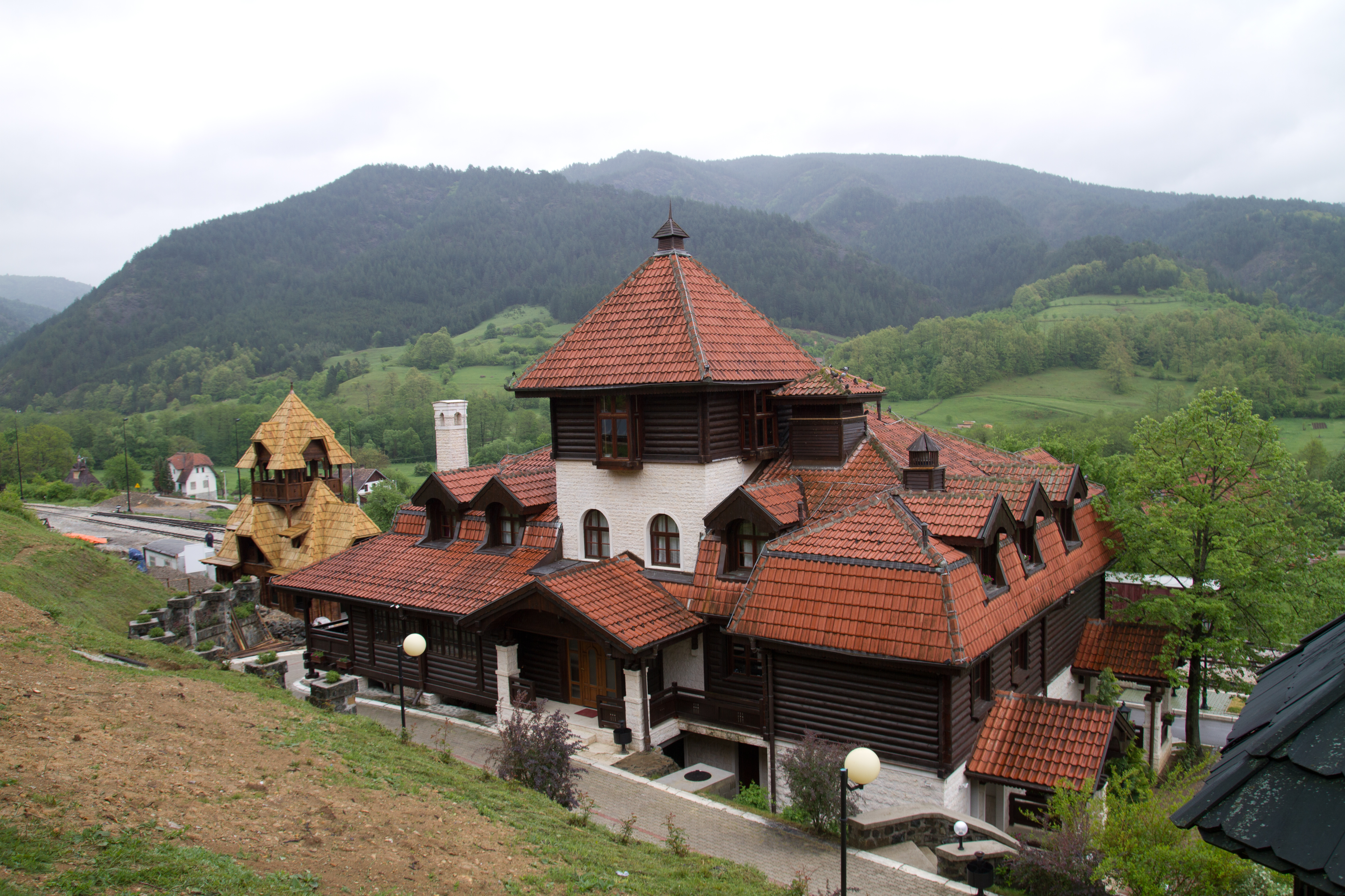 Mokra Gora, Užice, Serbia